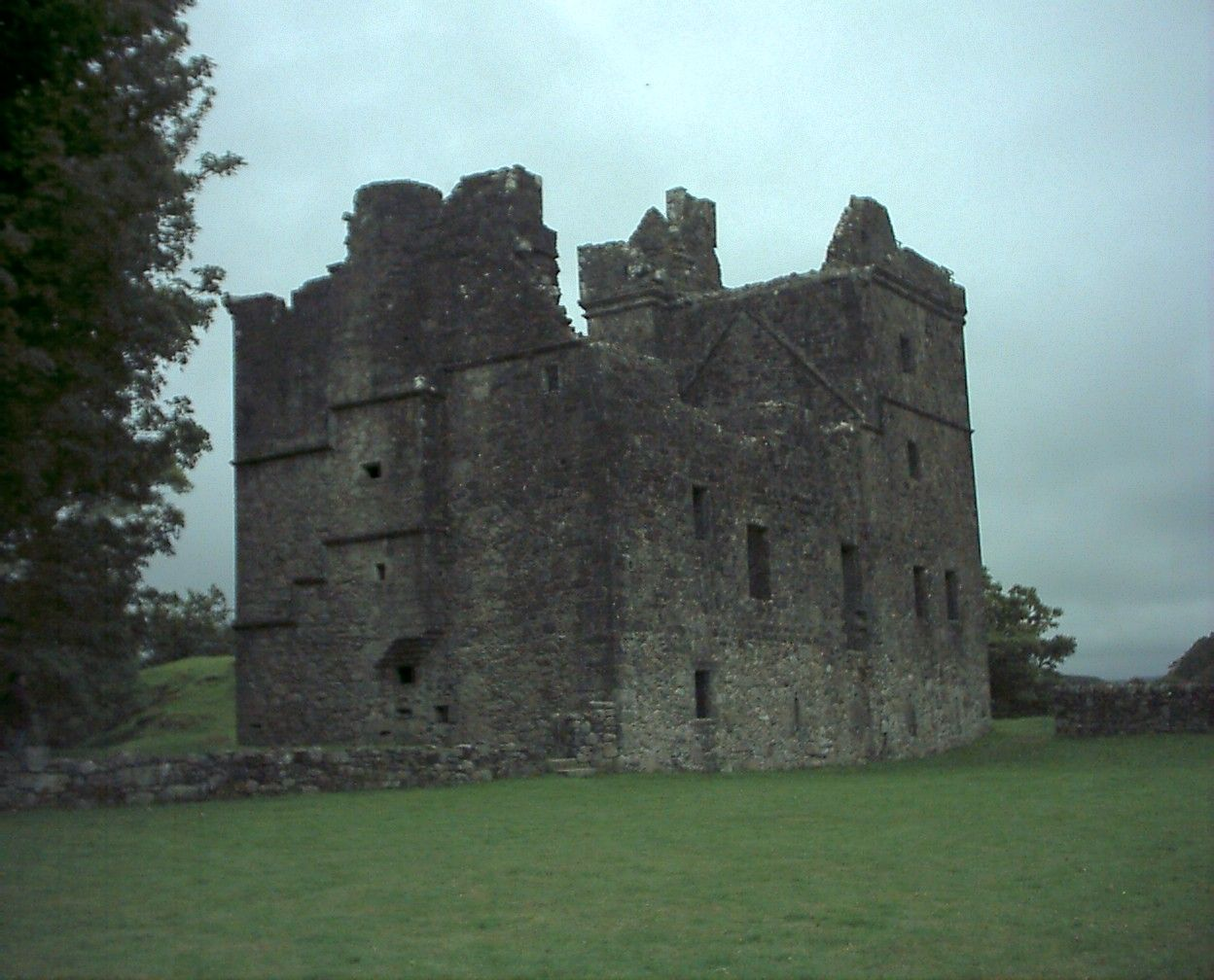 Scotland, Carnassarie Castle, Kilmartin Author: Wojsyl